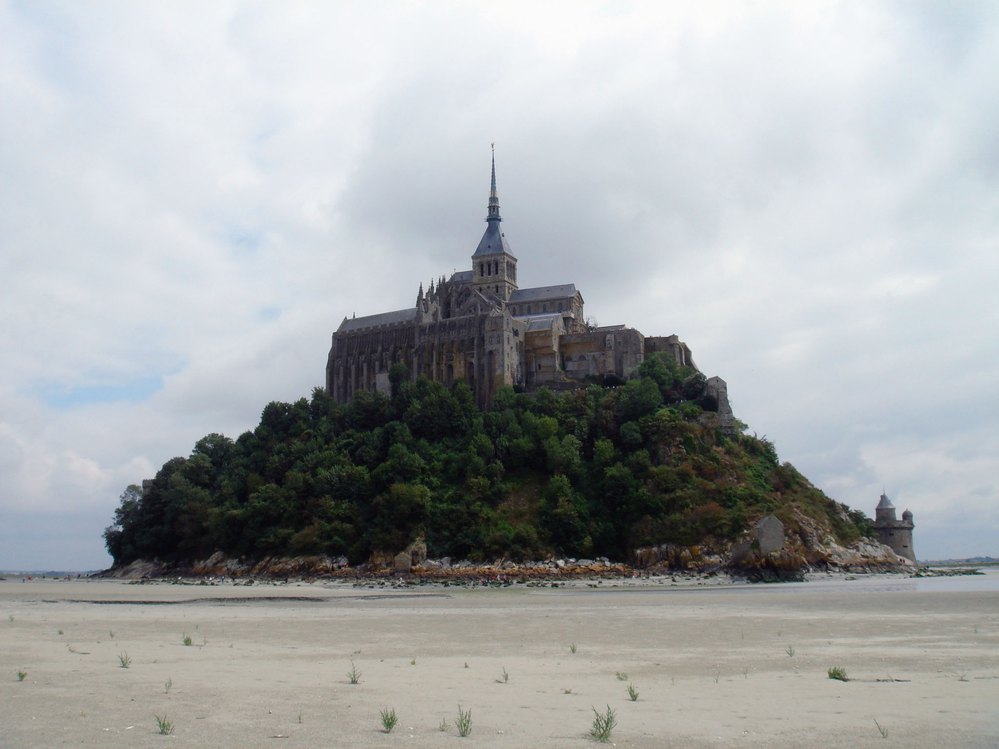 Mont Saint-Michel as viewed from the sea coast in Normandy, France.